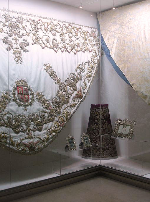 Museum of the Macarena, Sevilla